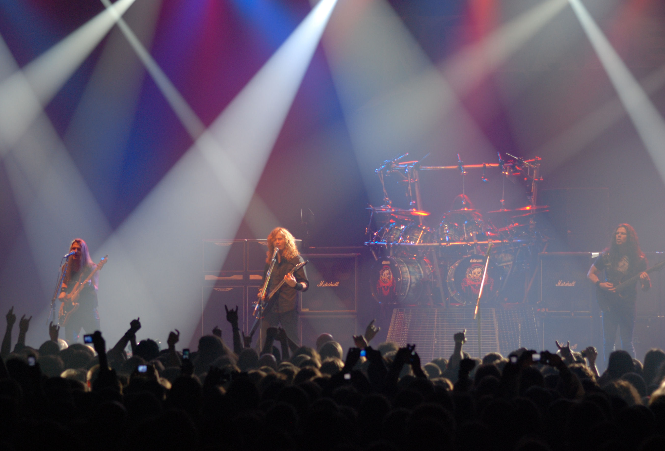 Megadeth during Metalmania 2008 festival